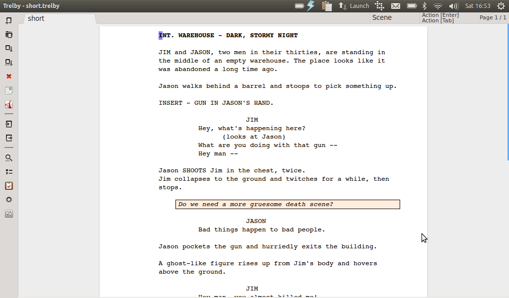 A screenshot of Trelby screenwriting program.